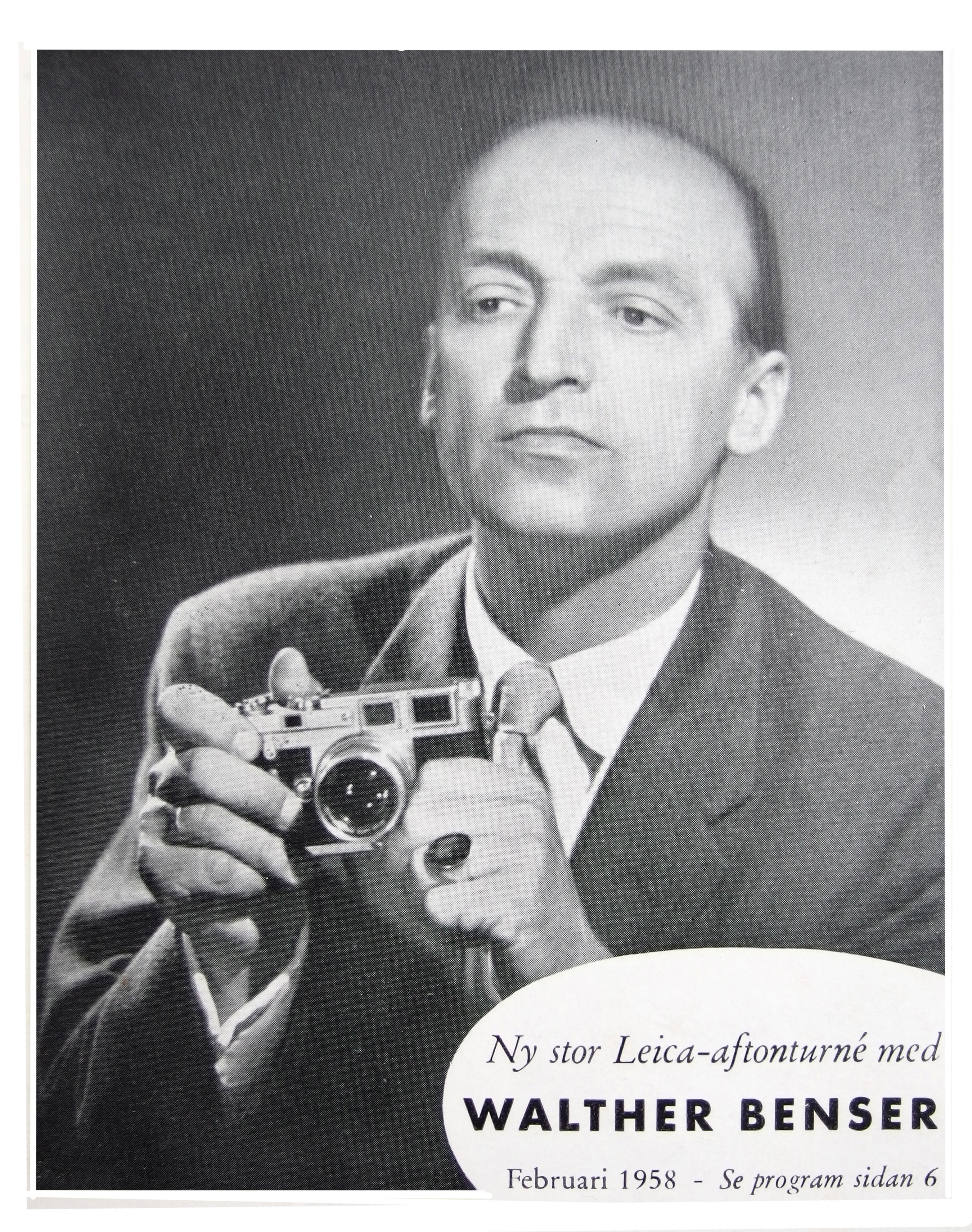 Walther Benser, self-portrait for a leaflet of a slide lecture tour in Sweden 1958